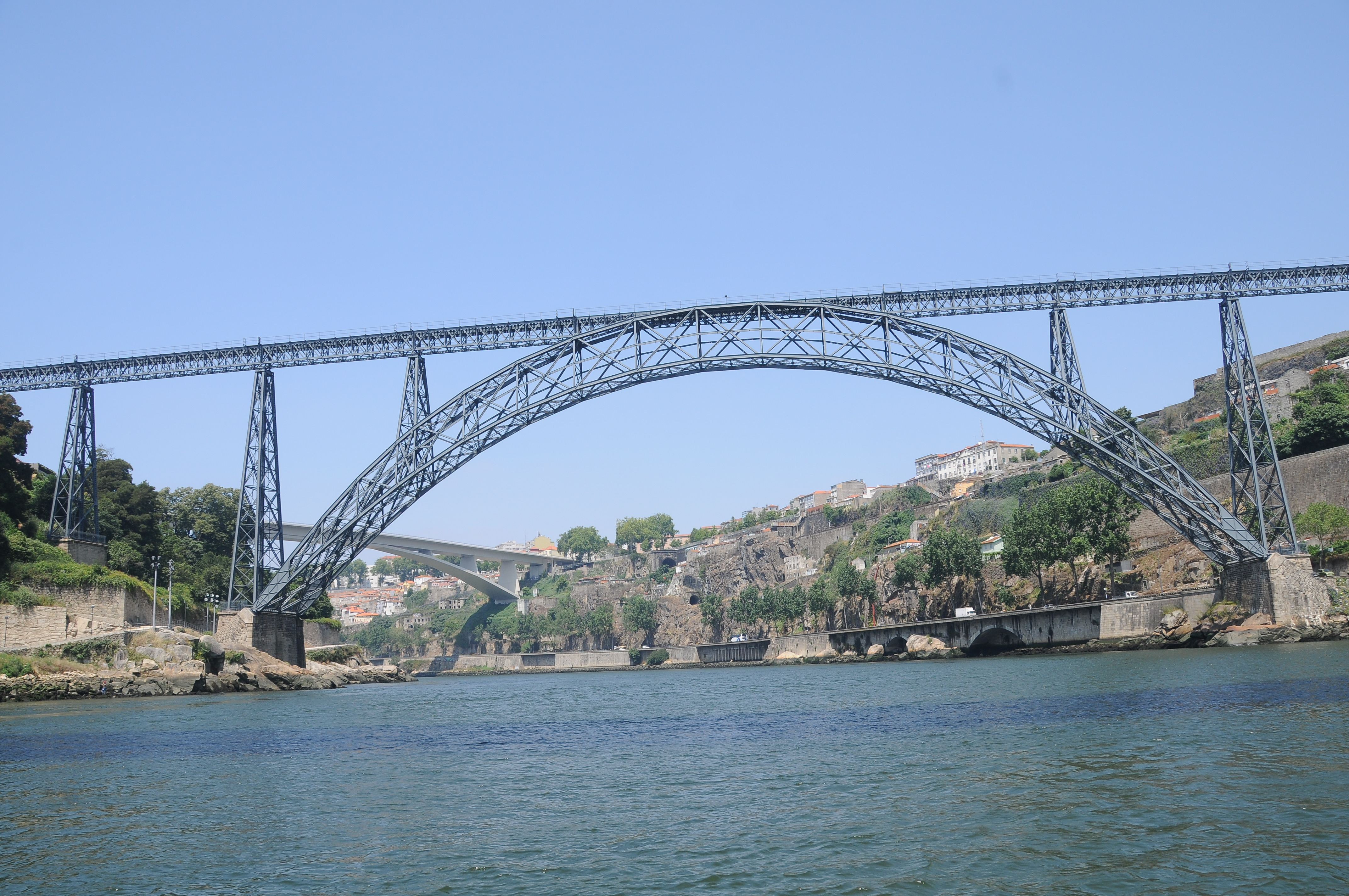 Maria Pia Bridge in Porto, Portugal